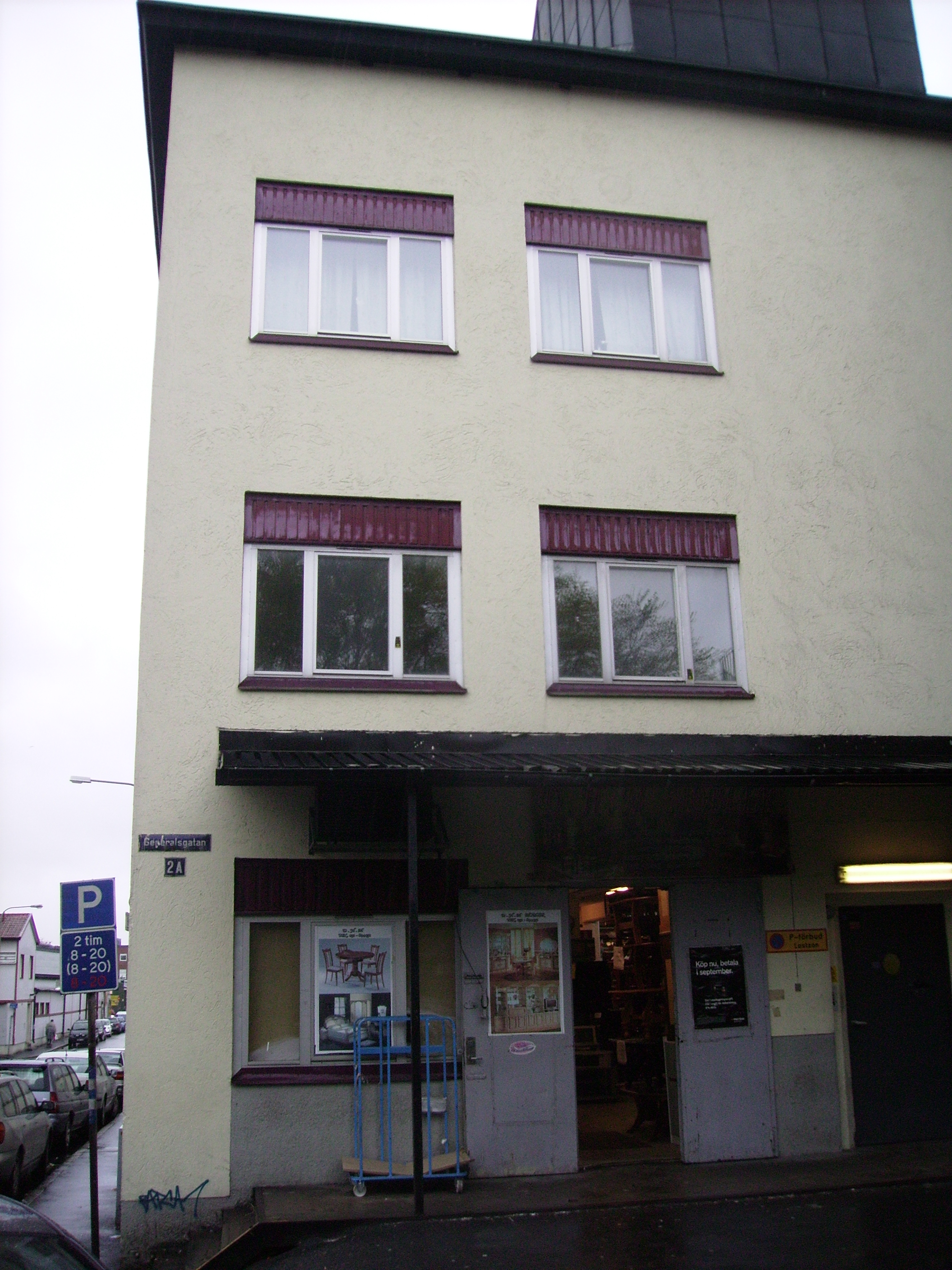 Picture of Generalsgatan 2A, site for mosque in Göteborg